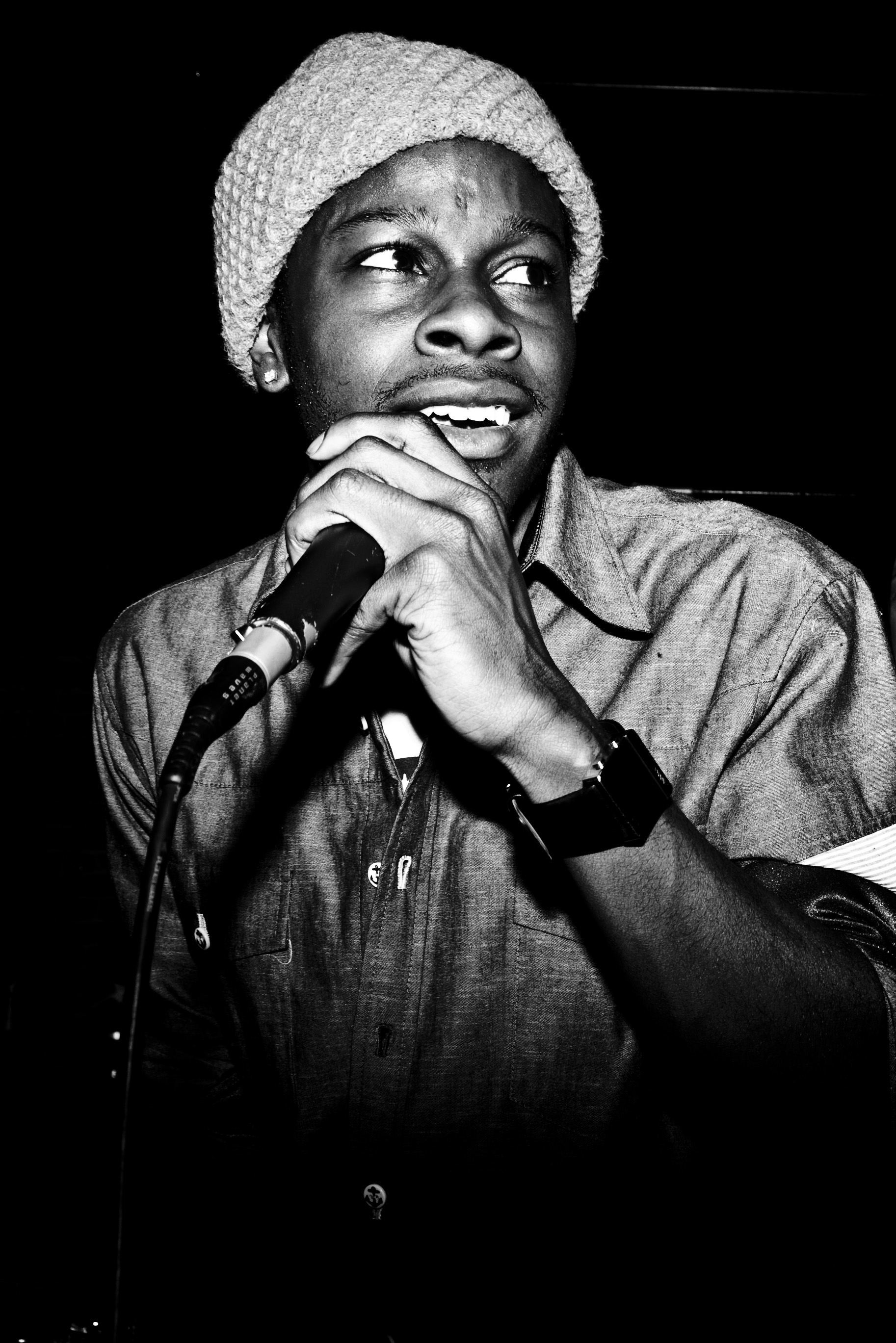 Jesse Boykins III performing at the Pacific Standard Time weekly party at 330 Ritch in San Francisco, May 2009